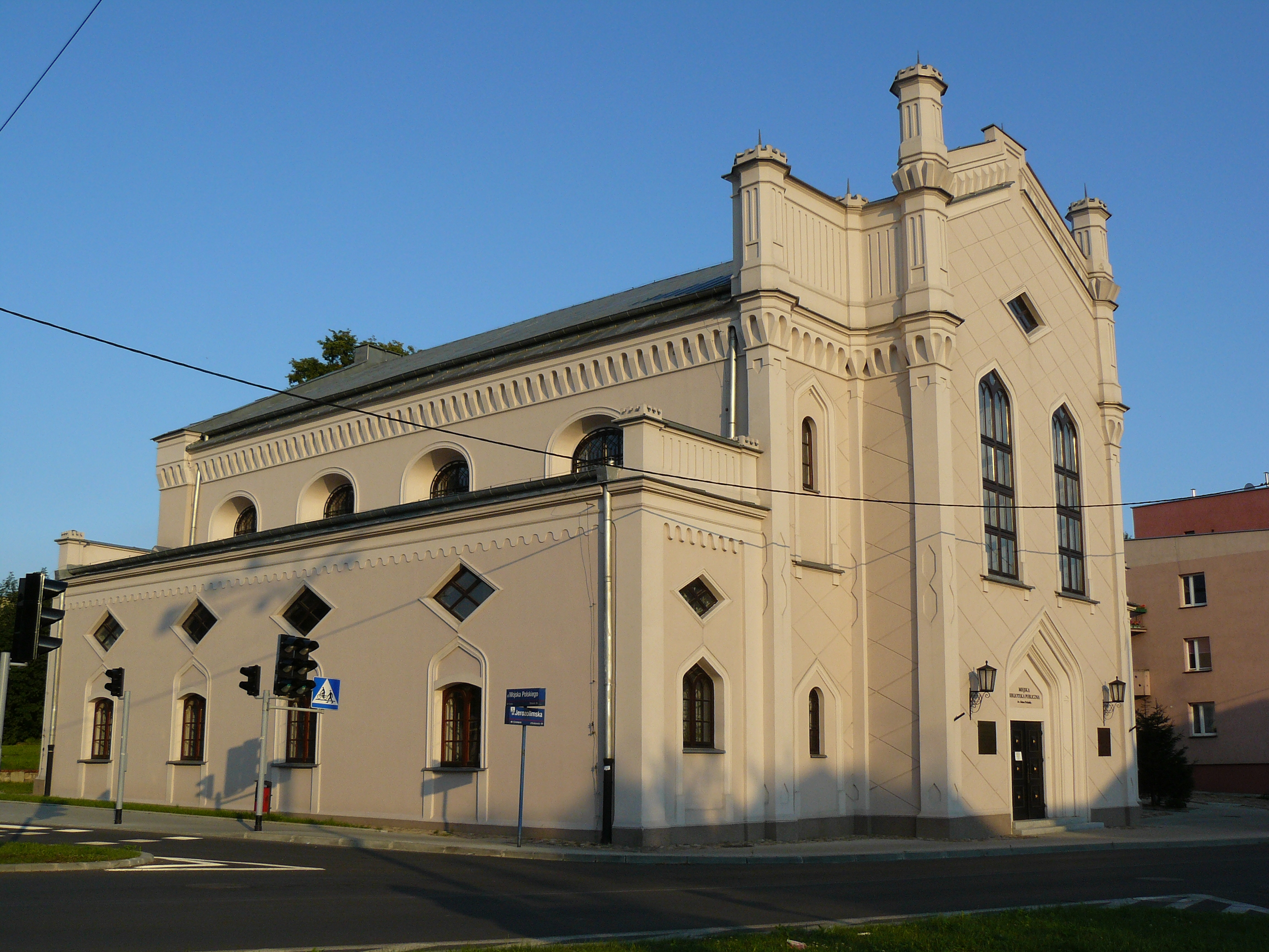 Old synagogue in Piotrkow Trybunalski.